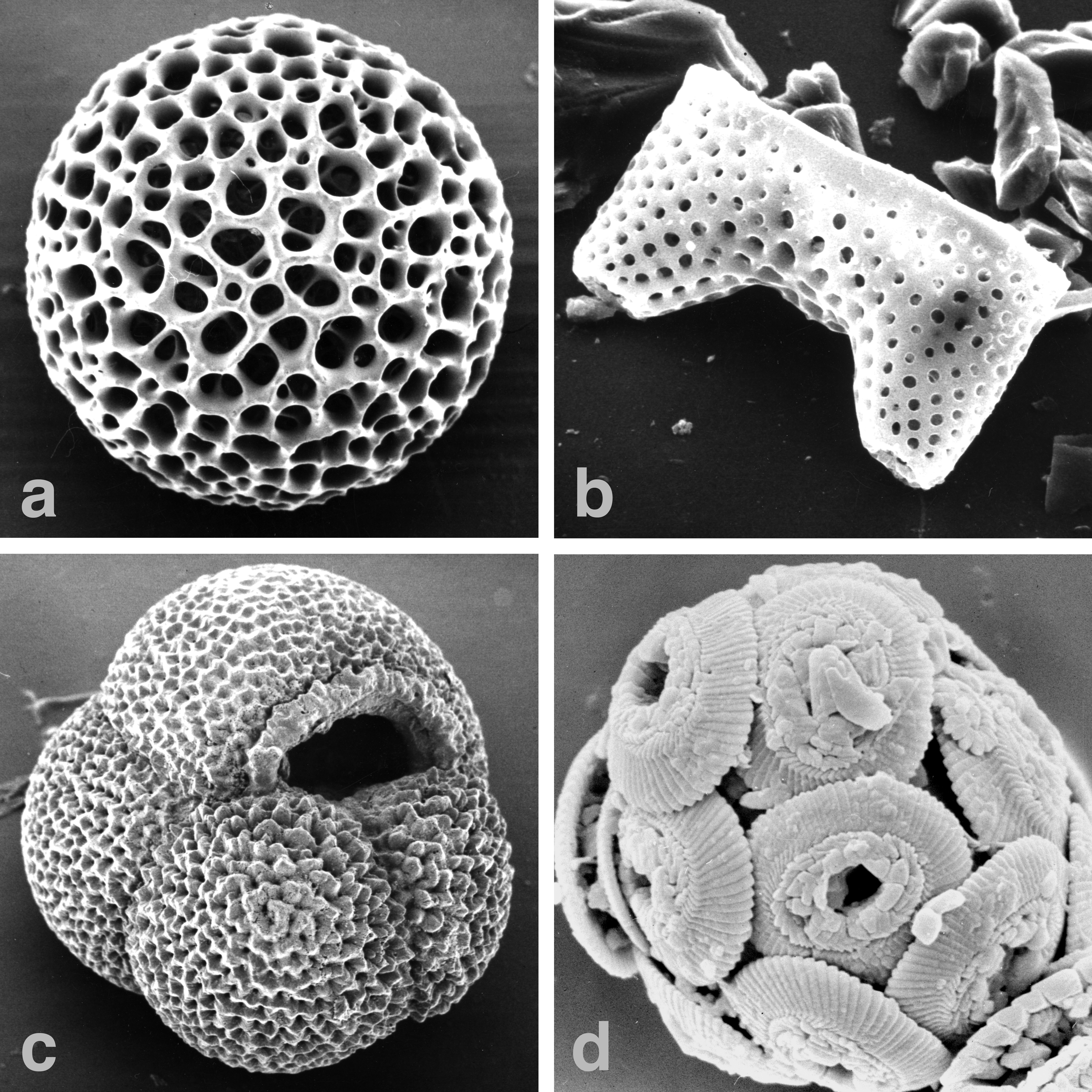 Major microfossils forming marine sediments